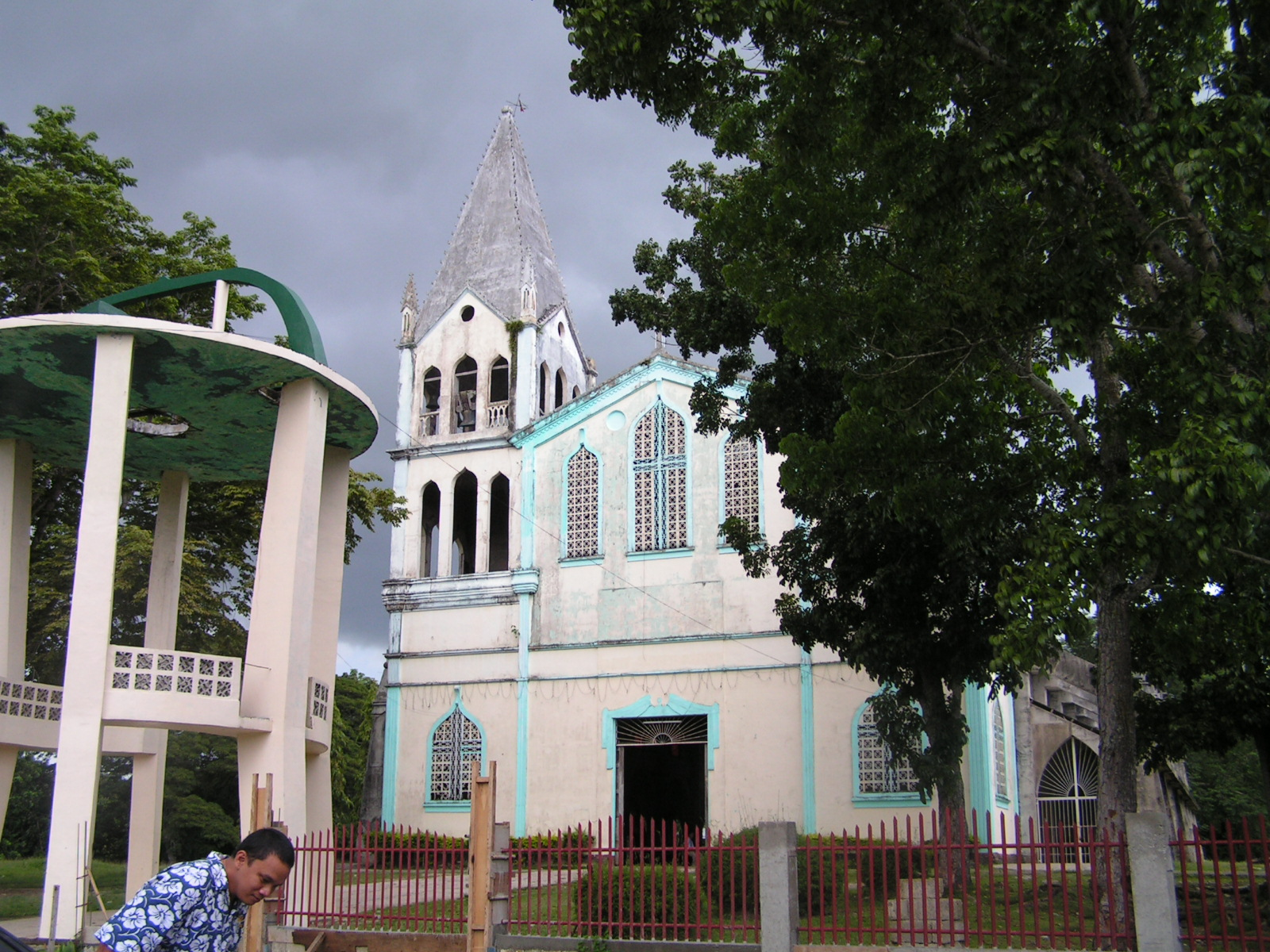 self-taken